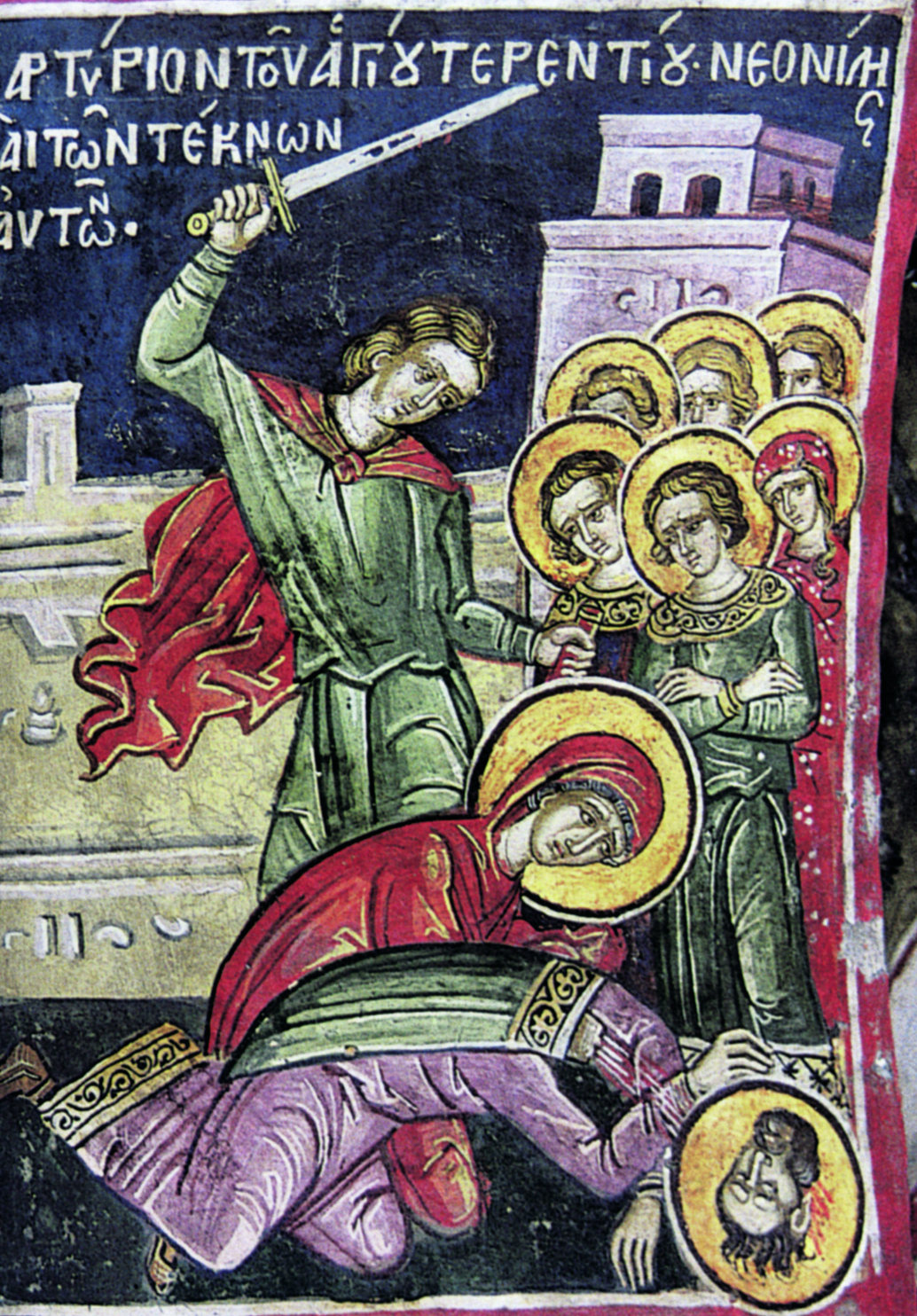 Neonilla, the Christian martyr. Year 1547 fresco from Athon